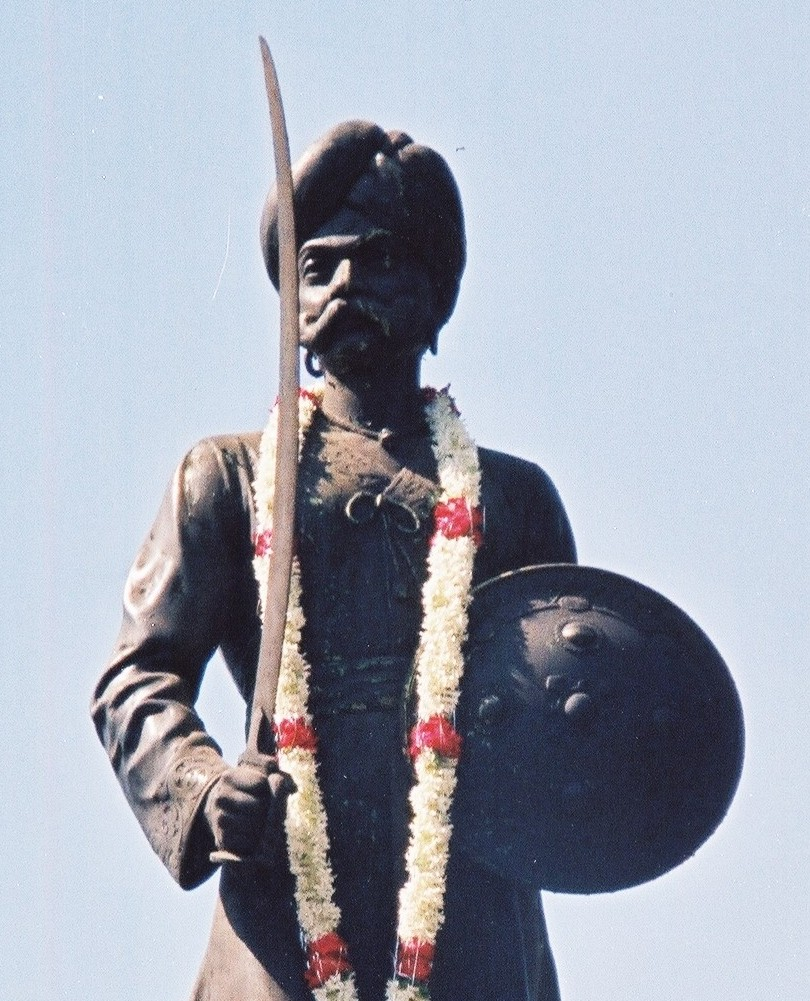 Kempegowda ruler of Banglore 1510-1570